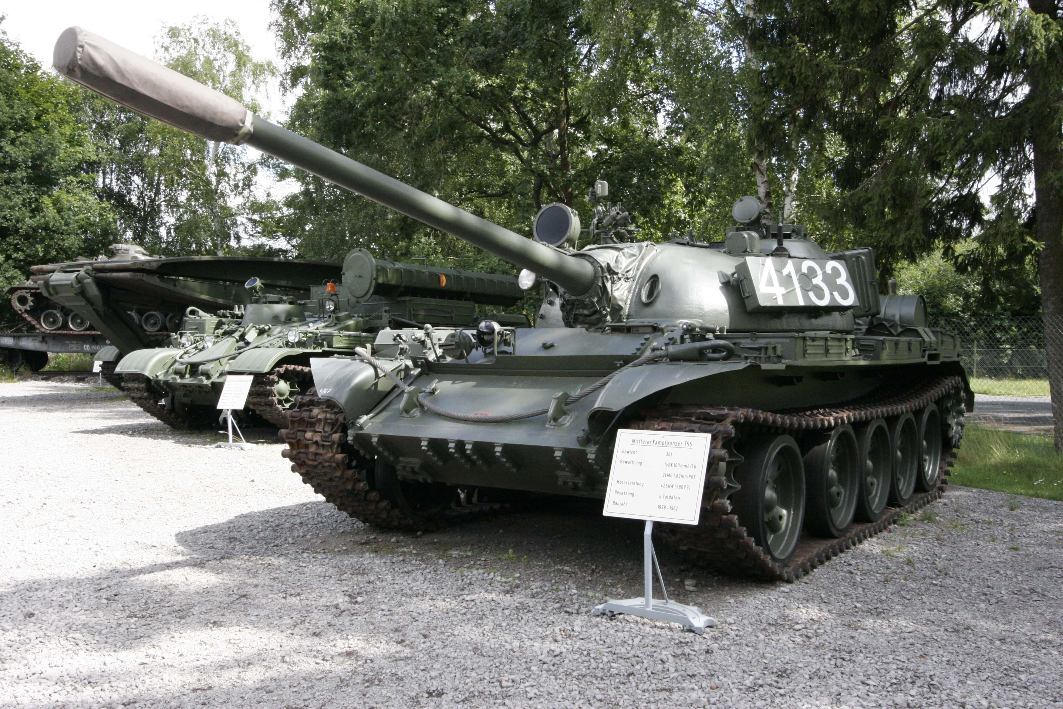 T-55A, previously used by the NVA, on display at the Deutsches Panzermuseum Munster, Germany.